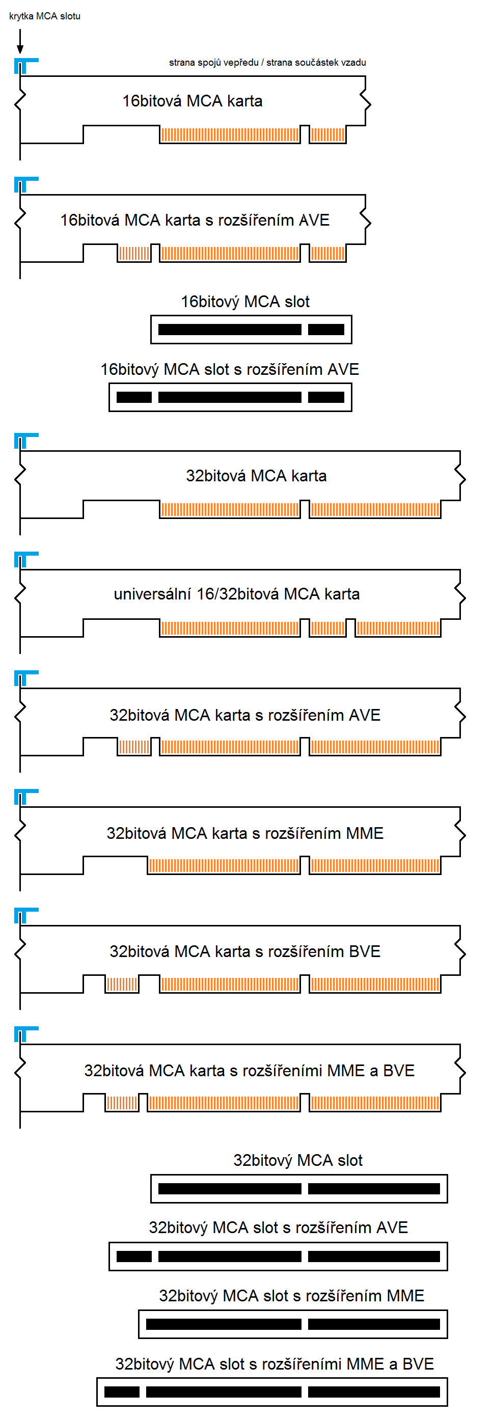 This diagram shows the key(s) positions on 16-bit and 32-bit MCA cards and slots (including AVE, BVE and MME extensions).